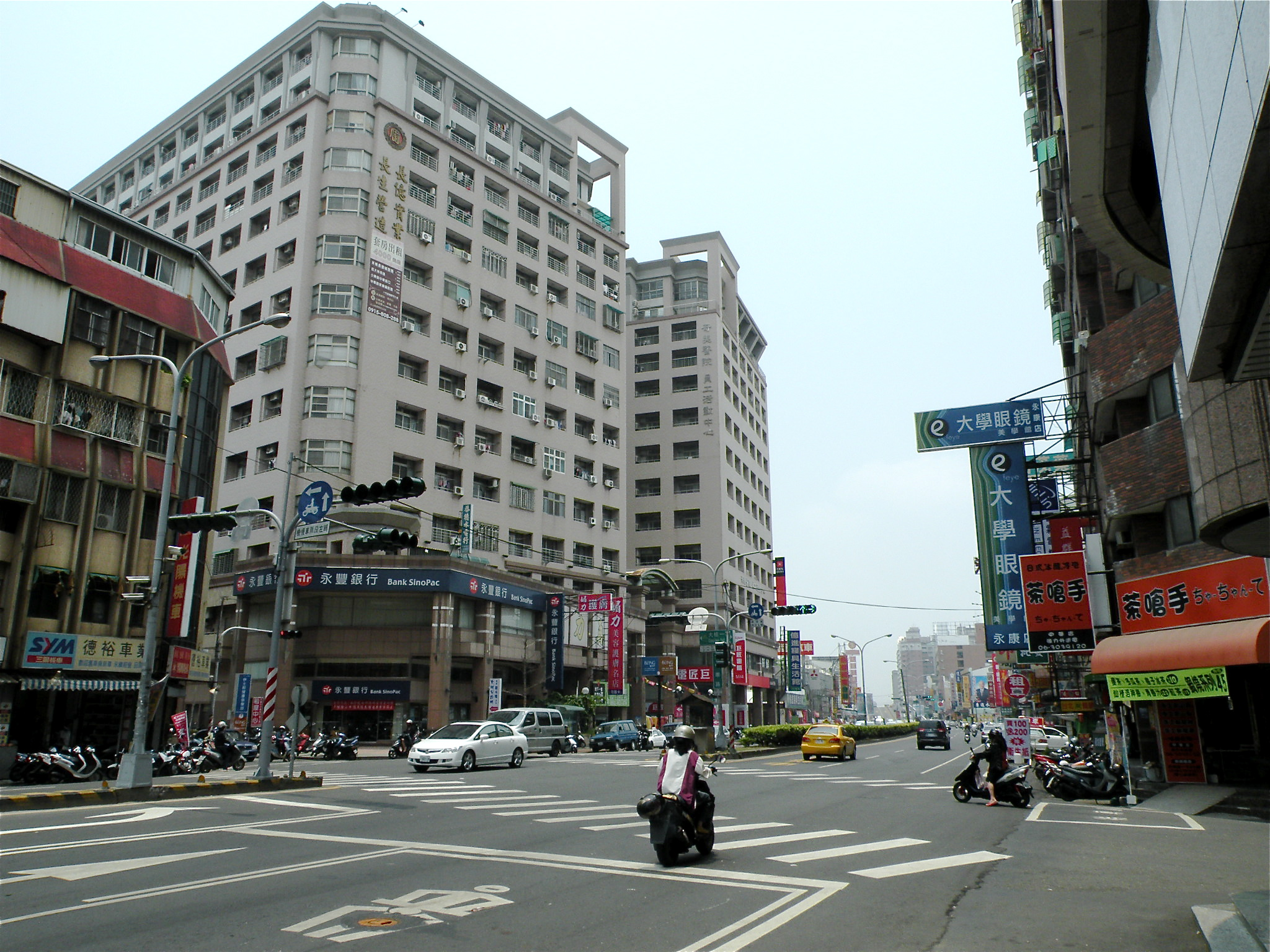 Daociao 1st St. & Jhonghua Rd. Intersection, Yongkang, Tainan, Taiwan